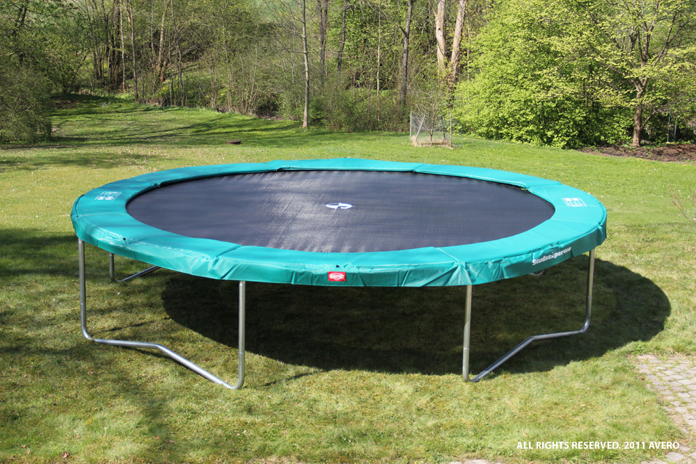 Trampoline made by Berg modell called Champion, picture taken in Sweden